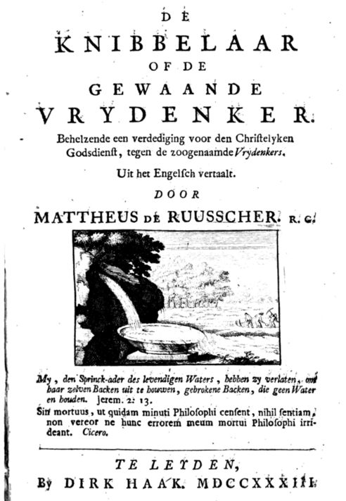 The title page of the 1733 Dutch translation (by Mattheus de Ruusscher) of the book Alciphron (1732) by George Berkeley.